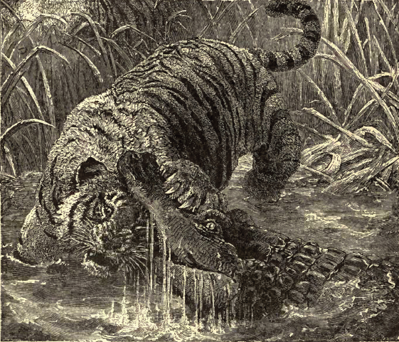 Engraving of a Bengal tiger attacked by a mugger crocodile